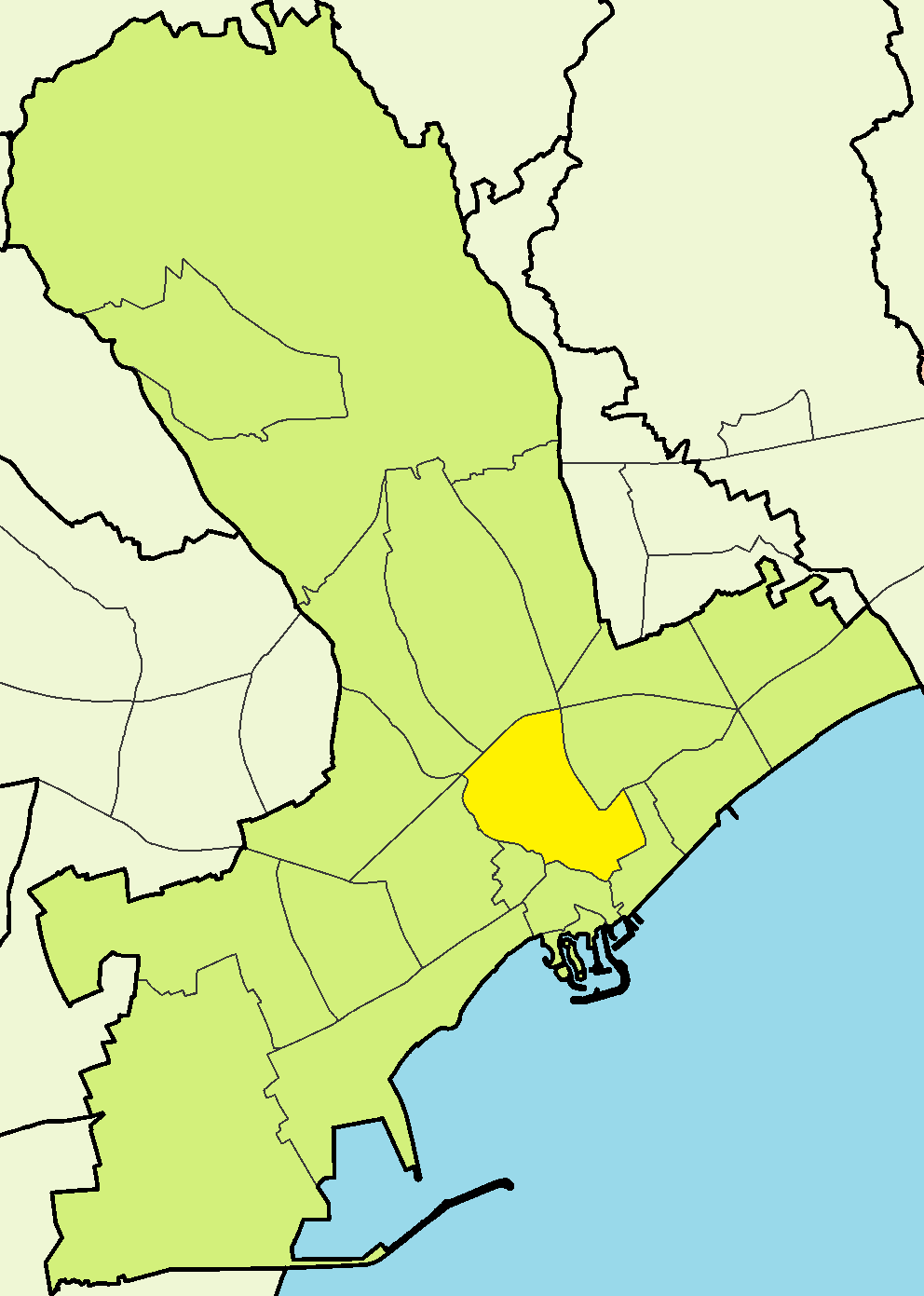 Katholiki in Limassol Municipality